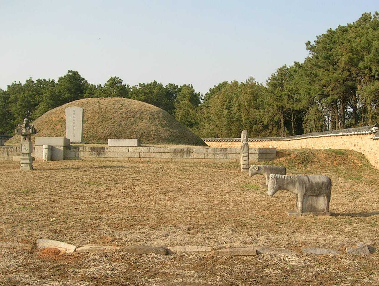 Tomb attributed to the founder of Goryeong Gaya, in Hamchang-eup, Sangju, Gyeongsangbuk-do, South Korea.